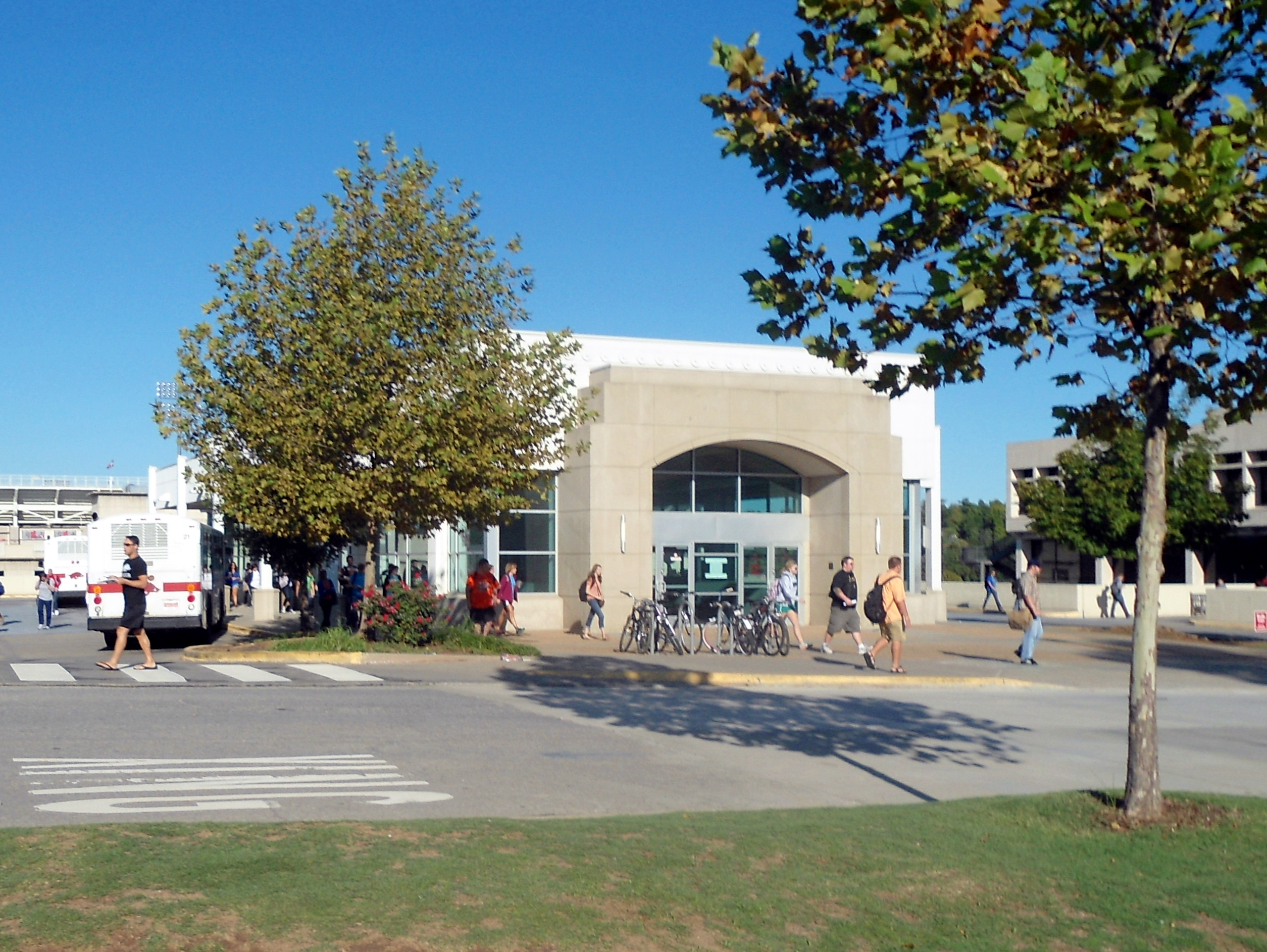 Bus station at the University of Arkansas. Adjacent to the student union.